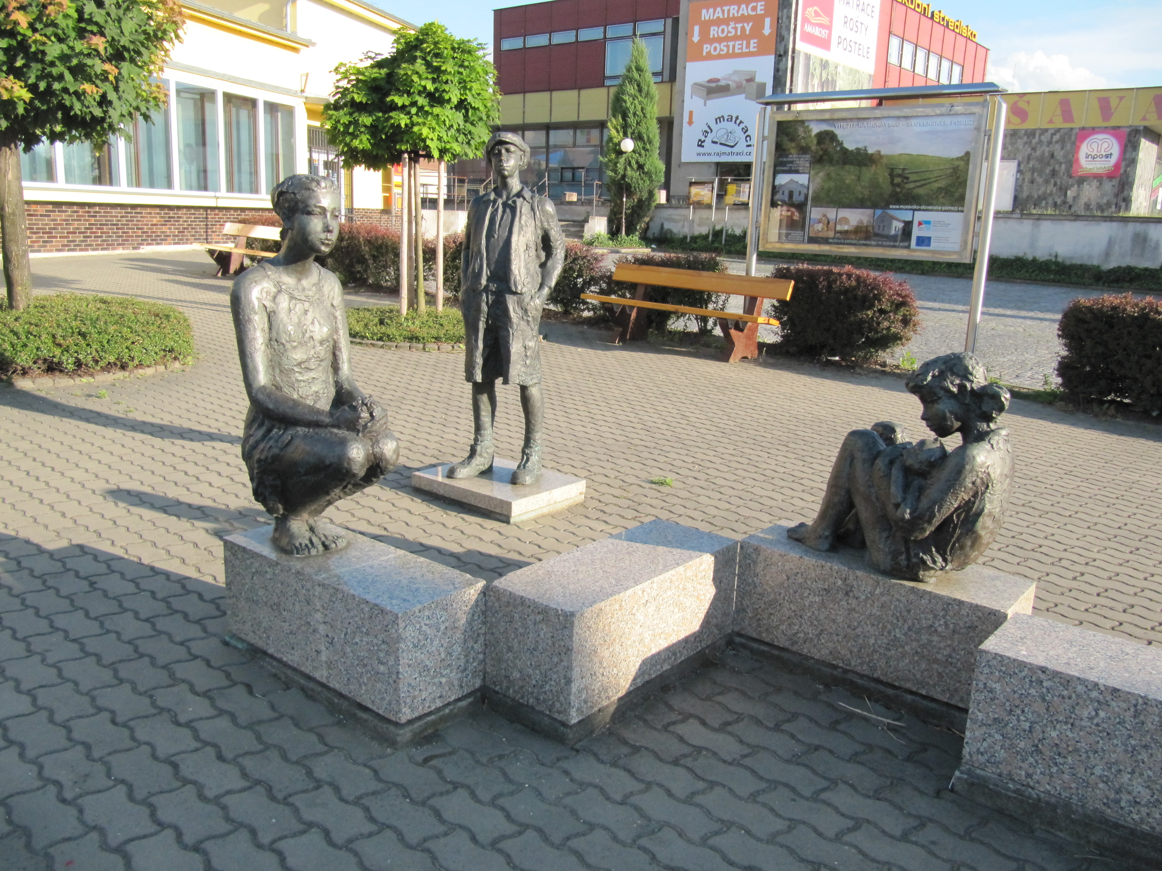 Kunovice in Uherské Hradiště District, Czech Republic. Sculpture Talking (1996) and statue Schoolboy (1993) by Bořek Zeman, situated in the front of the post office.